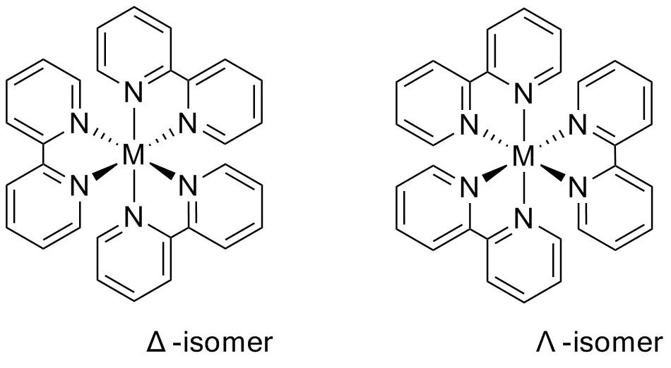 redrawn from [1]